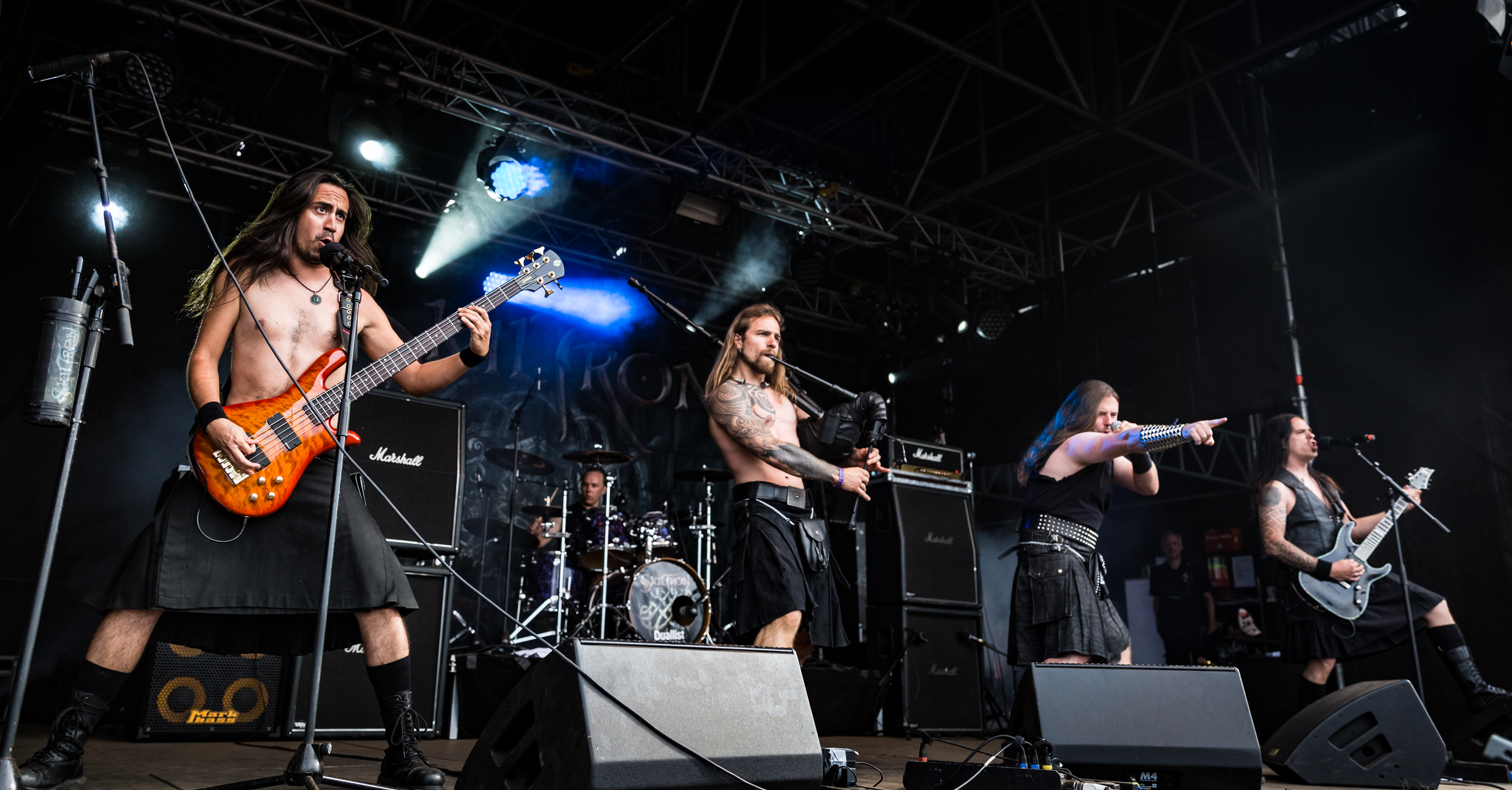 Skiltron - Wacken Open Air 2018